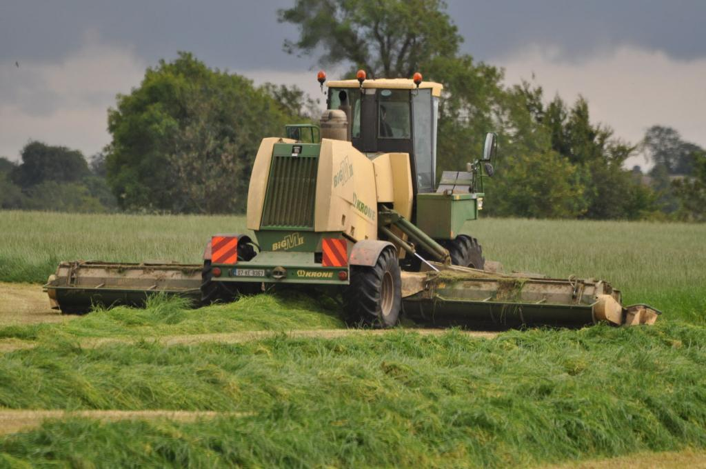 Krone BiG M II self-propelled high-capacity mower-conditioner, second crop (grass) silage harvesting in July 2011, Co. Meath, Ireland. – Machine data: 3 MoCo decks with a total of 9.0–9.72 m cutting width, 245 kW/333 hp max. engine power (ECE R24), 4wd, 40 km/h, 8.06 m transport length, 2.99 m transport width, 3.99 m height, ca. 13.5 t weight.